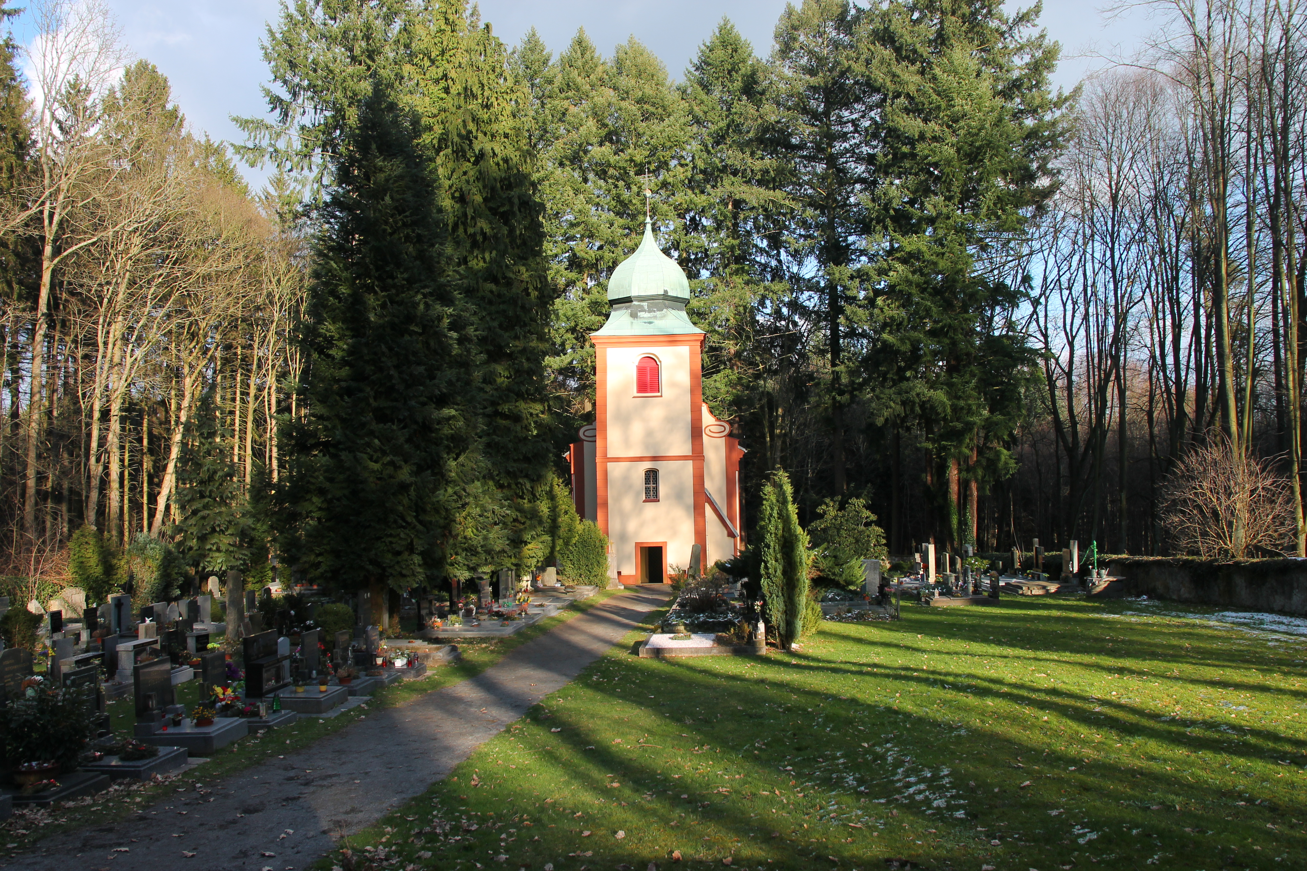 Aldašín